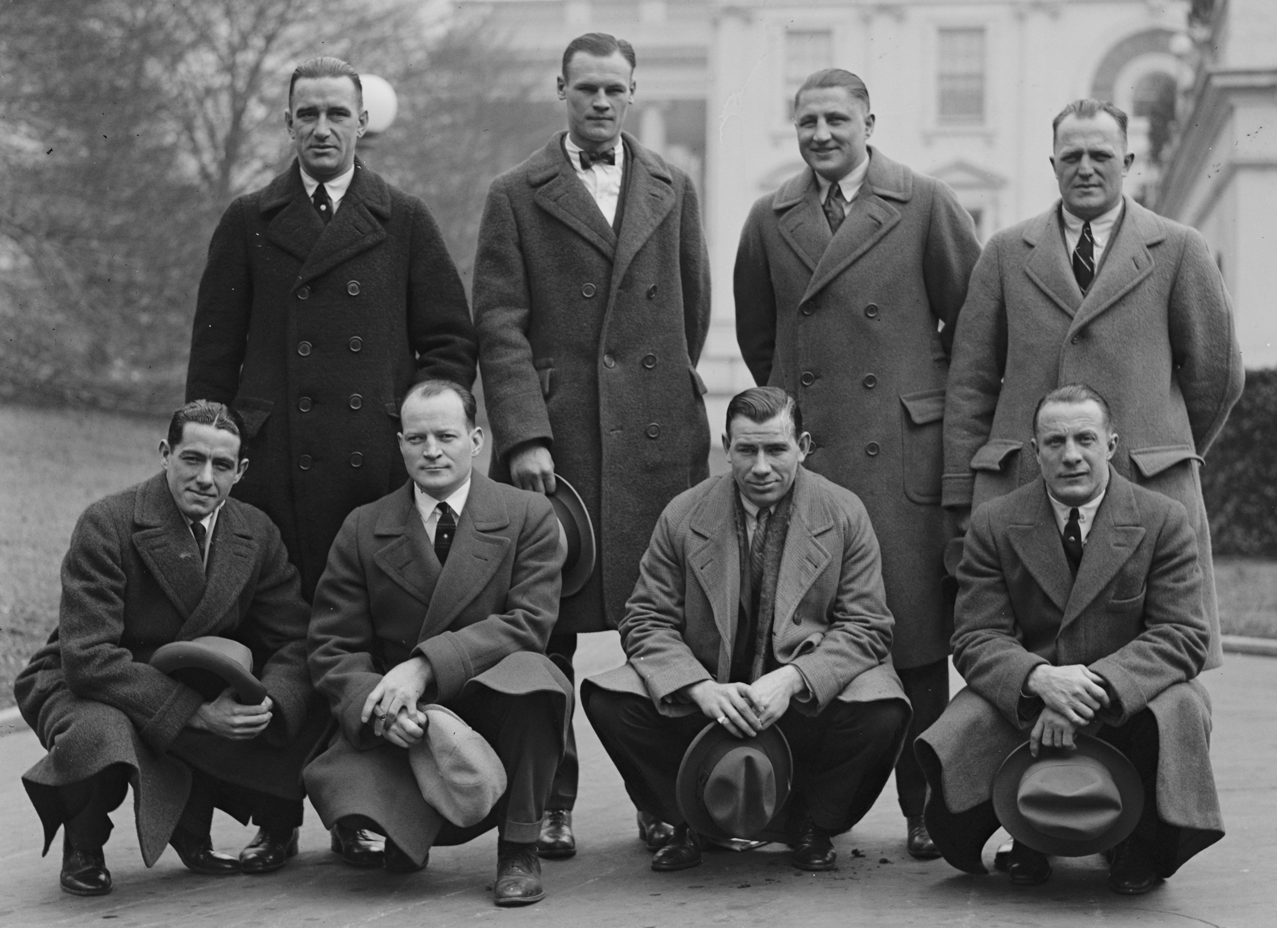 Title: The original Celtics, World Champions Basket Ball at W.H., 2/16/25 Abstract/medium: 1 negative : glass ; 4 x 5 in. or smaller